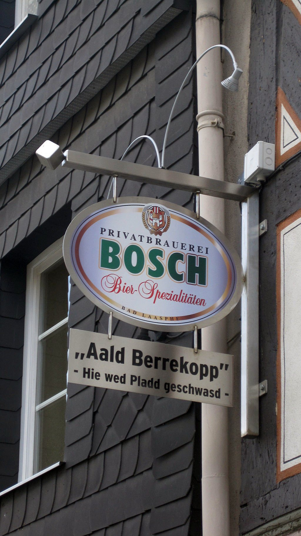 shield of pub "Aald Berrekopp"